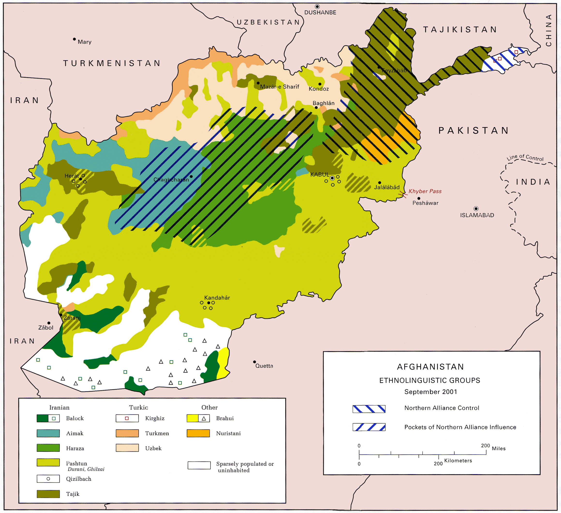 US Army ethnolinguistic map of Afghanistan -- circa 2001-09.